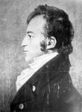 Portrait of Congressman Thomas Weston Thompson